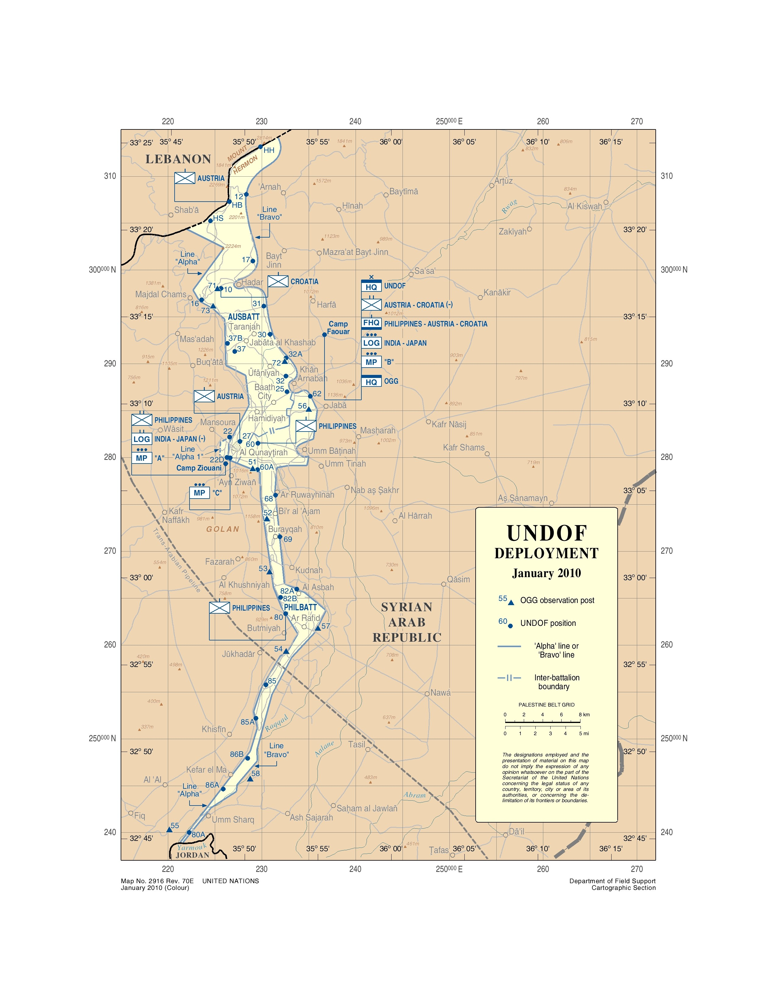 UNDOF DEPLOYMENT in 2010